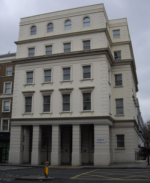 2 Bessborough Gardens This building is used as the London Embassy of the Republic of Lithuania who acquired it in 2007 it was previously used by Rolls Royce